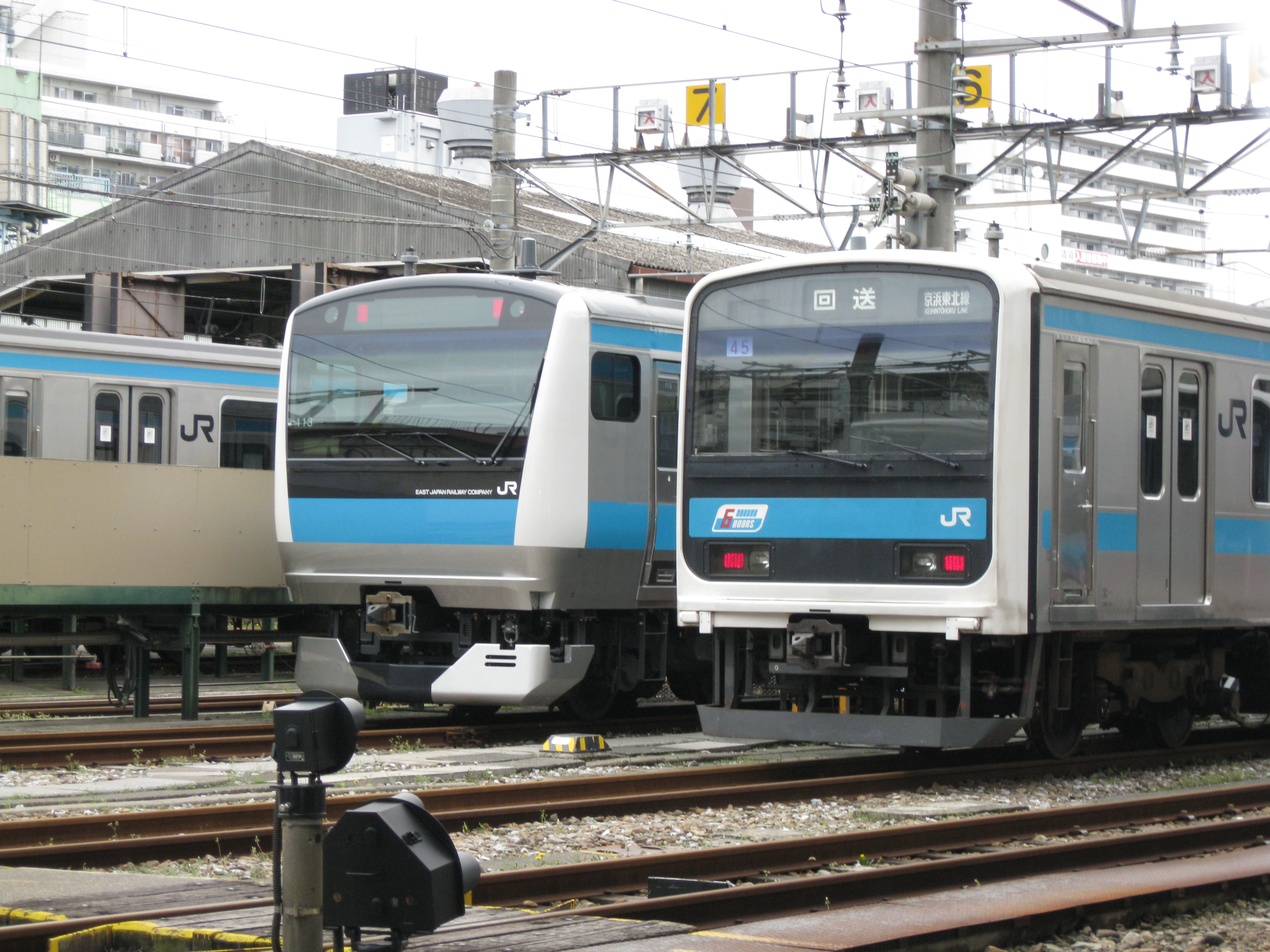 JR East 209 and E233-1000 series EMUs at Shimo-Jujo Train Drivers Depot